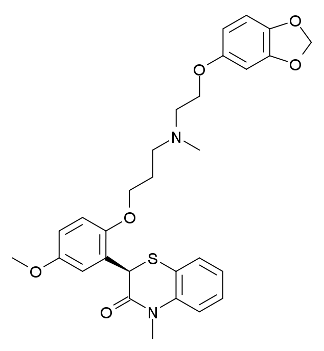 Structure of sesamodil